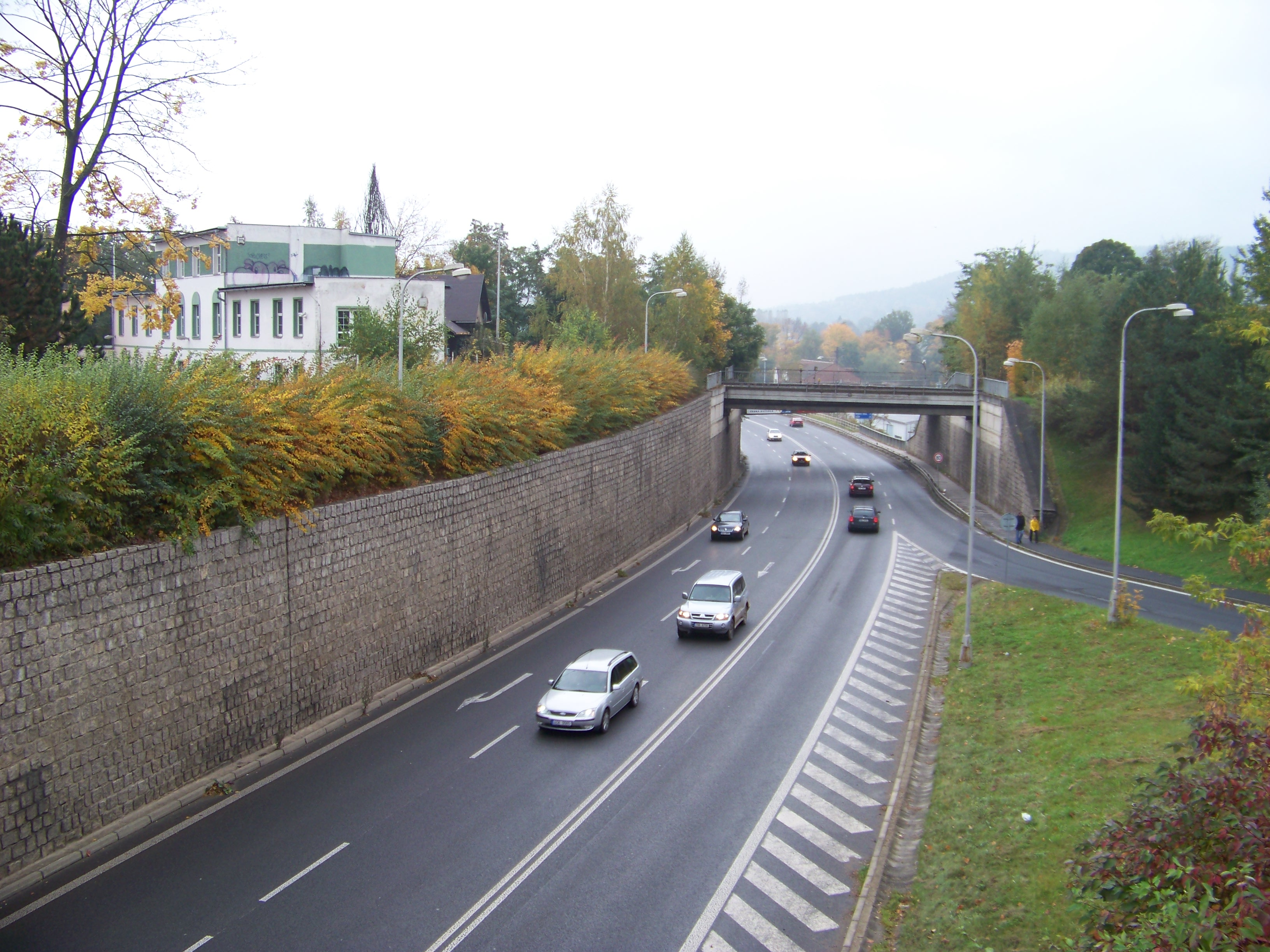 Turnov, Semily District, Liberec Region, the Czech Republic. Road I/35.